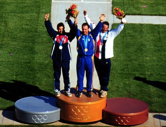 Sgt. 1st Class James T. Graves (right) joins his competitors on the medals platform after winning the bronze medal in the Men's Skeet competition at the 2000 Olympic Games in Sydney, Australia, on Sept. 23, 2000. Graves is one of fifteen U.S. military athletes competing in the 2000 Olympic games as members of the U.S. Olympic team. In addition to the 15 competing athletes there are eight alternates and five coaches representing each of the four services in various venues. Graves is attached to the U.S. Army Marksmanship Unit, Fort Benning, Ga. Graves is on the podium with silver medalist Petr Malek (left), of the Czech Republic, and gold winner Mykola Milchev (center) of Ukraine. DoD photo by Tech. Sgt. Robert A. Whitehead, U.S. Air Force.